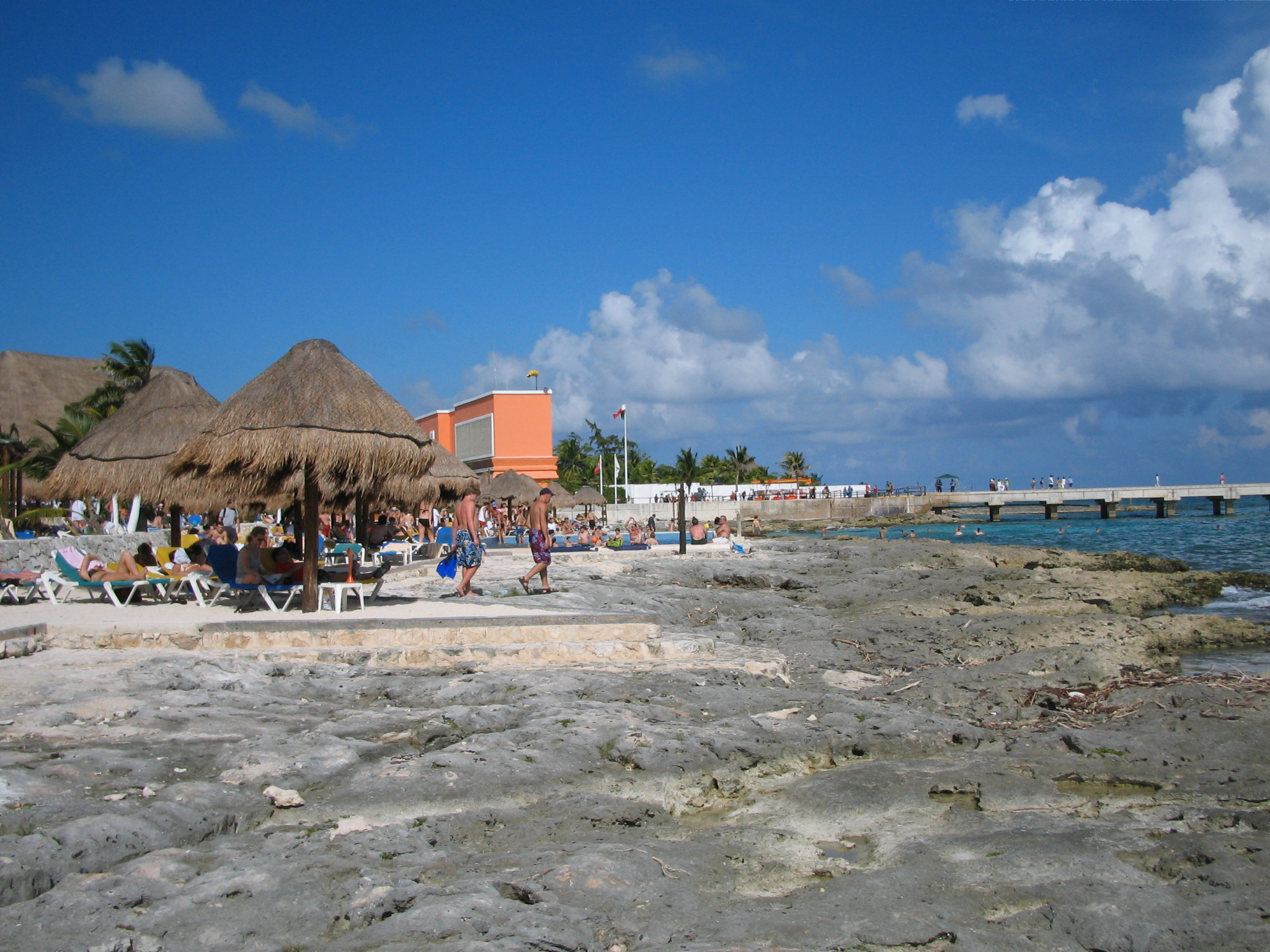 A photograph of the beach near Costa Maya, Mexico, looking toward the pier where cruise ships dock. Taken by NormanEinstein, January 3, 2006 at Costa Maya, Mexico.